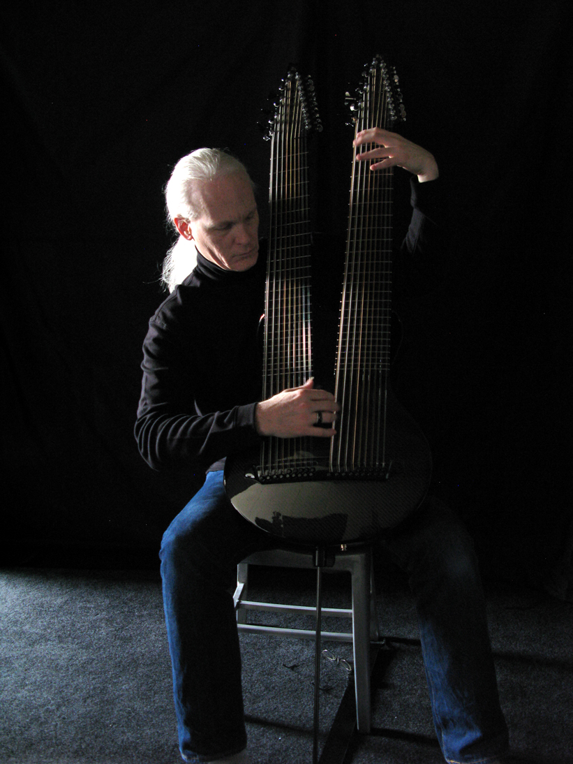 Kevin Kastning with the 36-string Kevin Kastning Signature Double Contraguitar by Emerald Guitars